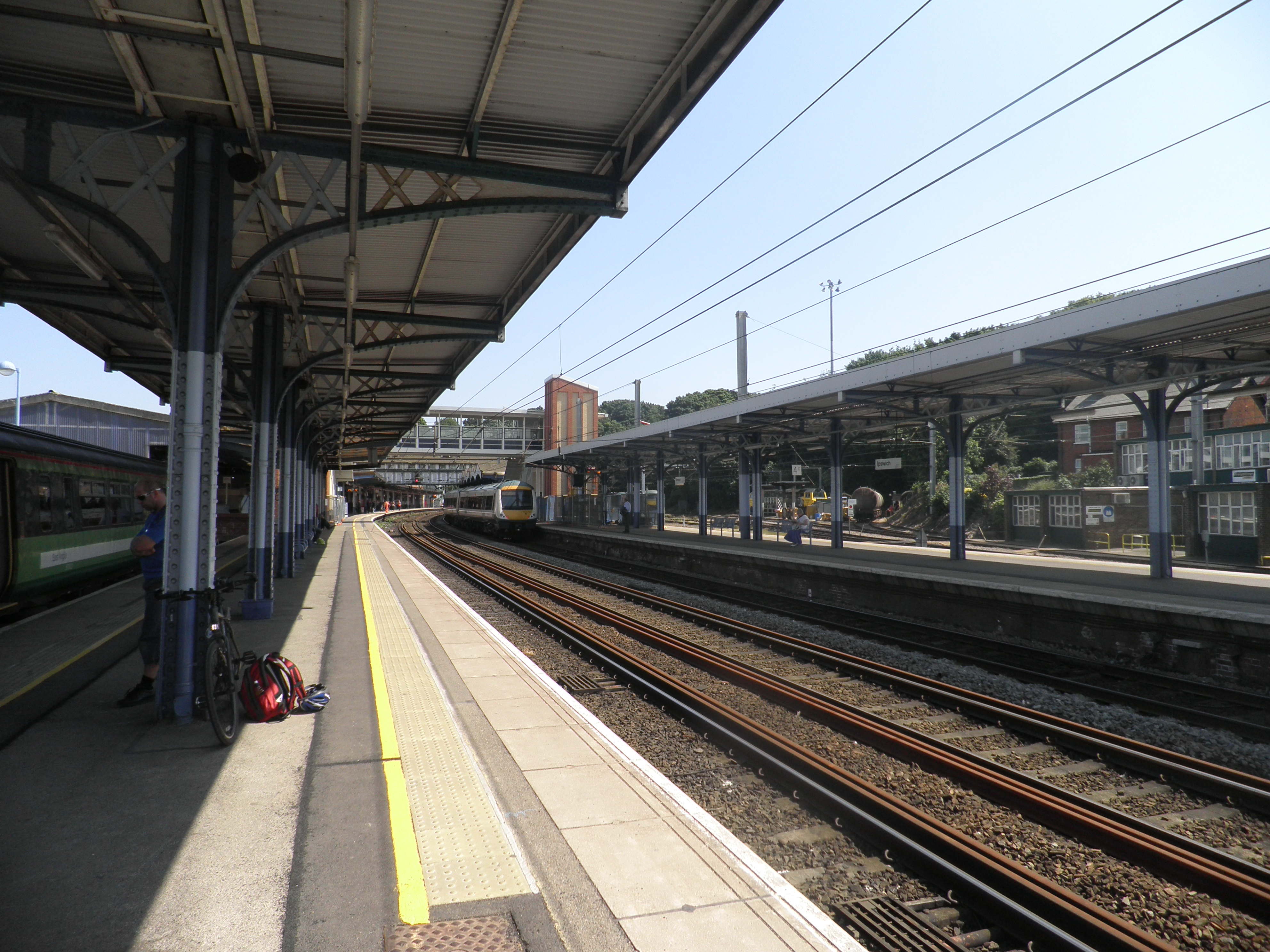 A view of Ipswich station, with the new lifts in view almost complete